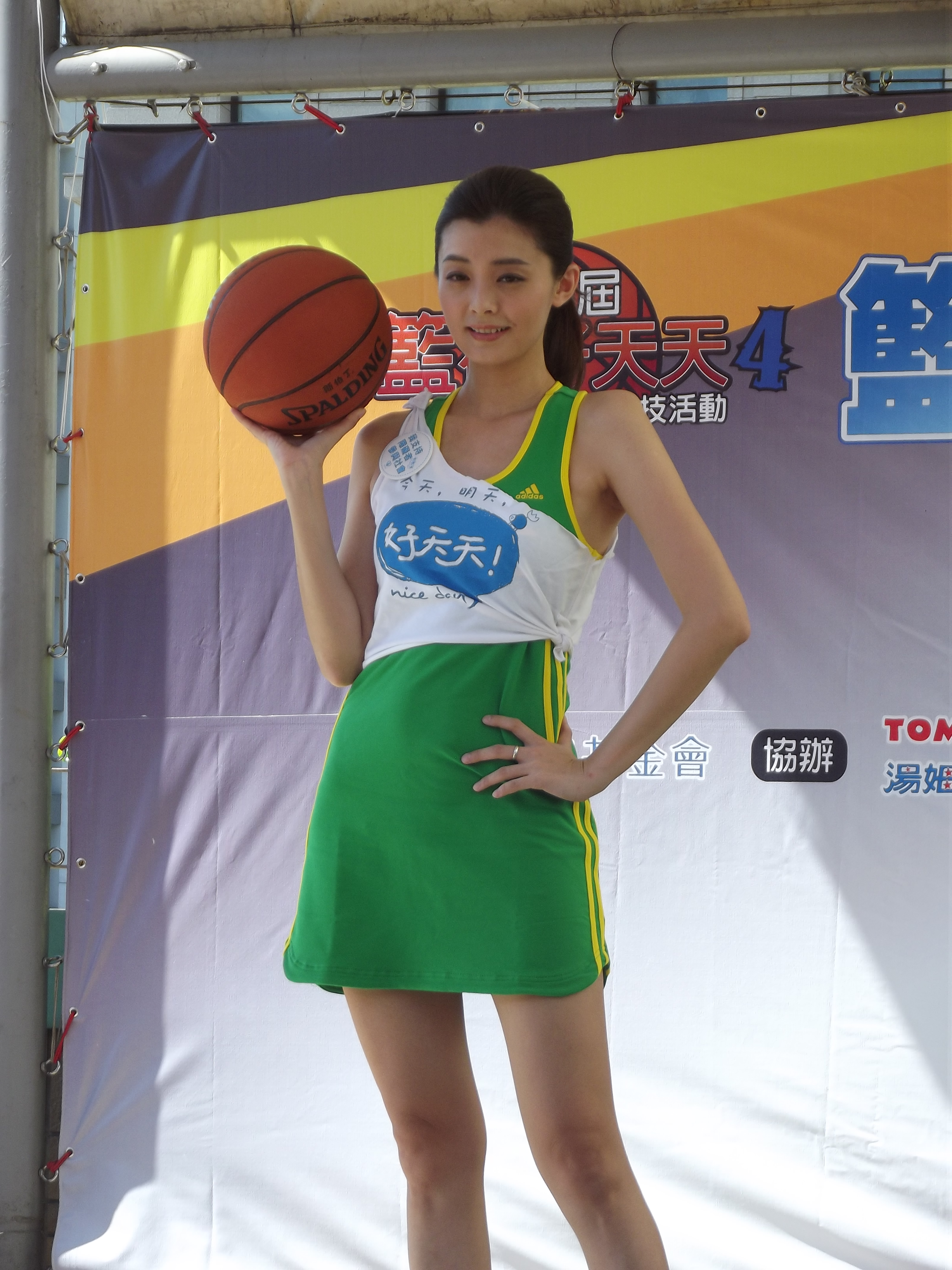 Cherry Hsia (2014 Synliu x Tom's World Taiwan Public Welfare Collarbration Event.)